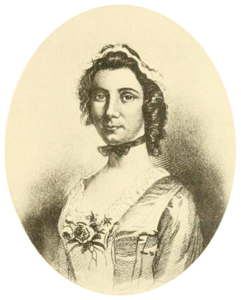 Mary Eliza "Polly" Philipse, wife of Roger Morris, British Army officer.